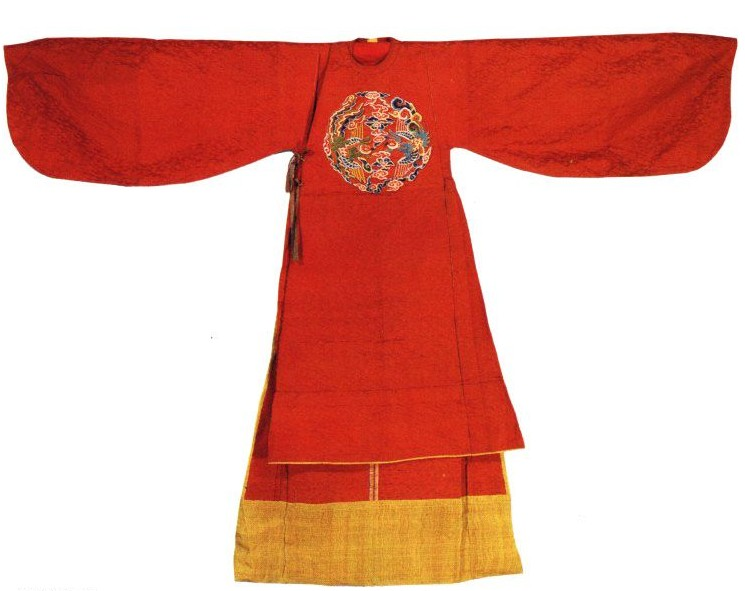 Artifact of clothing from China Ming Dynasty